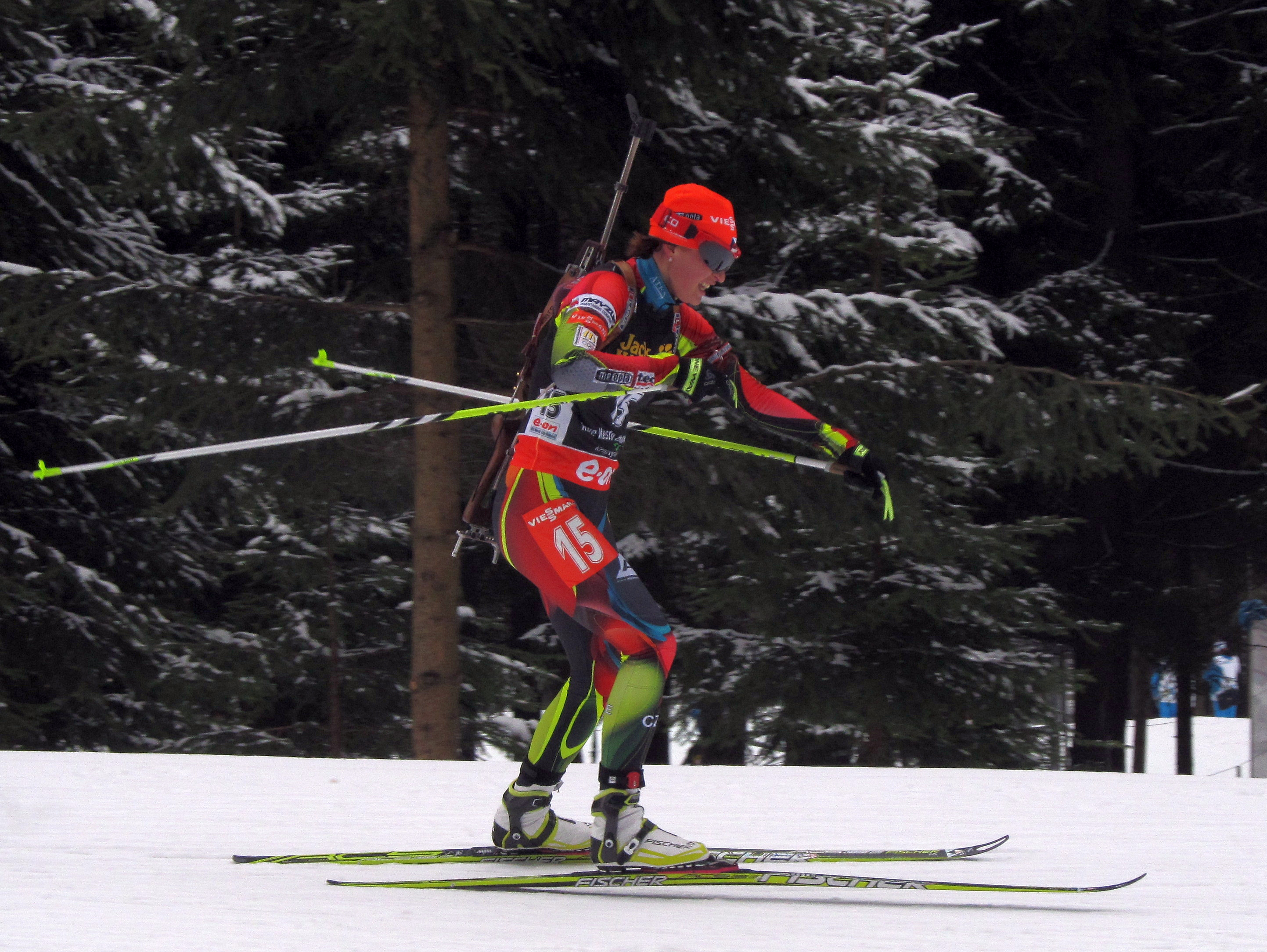 Czech biathlete Veronika Vítková on track for the final race women (12,5 km Mass Start) at the Biathlon World Championships 2013 held in Nové Město na Moravě